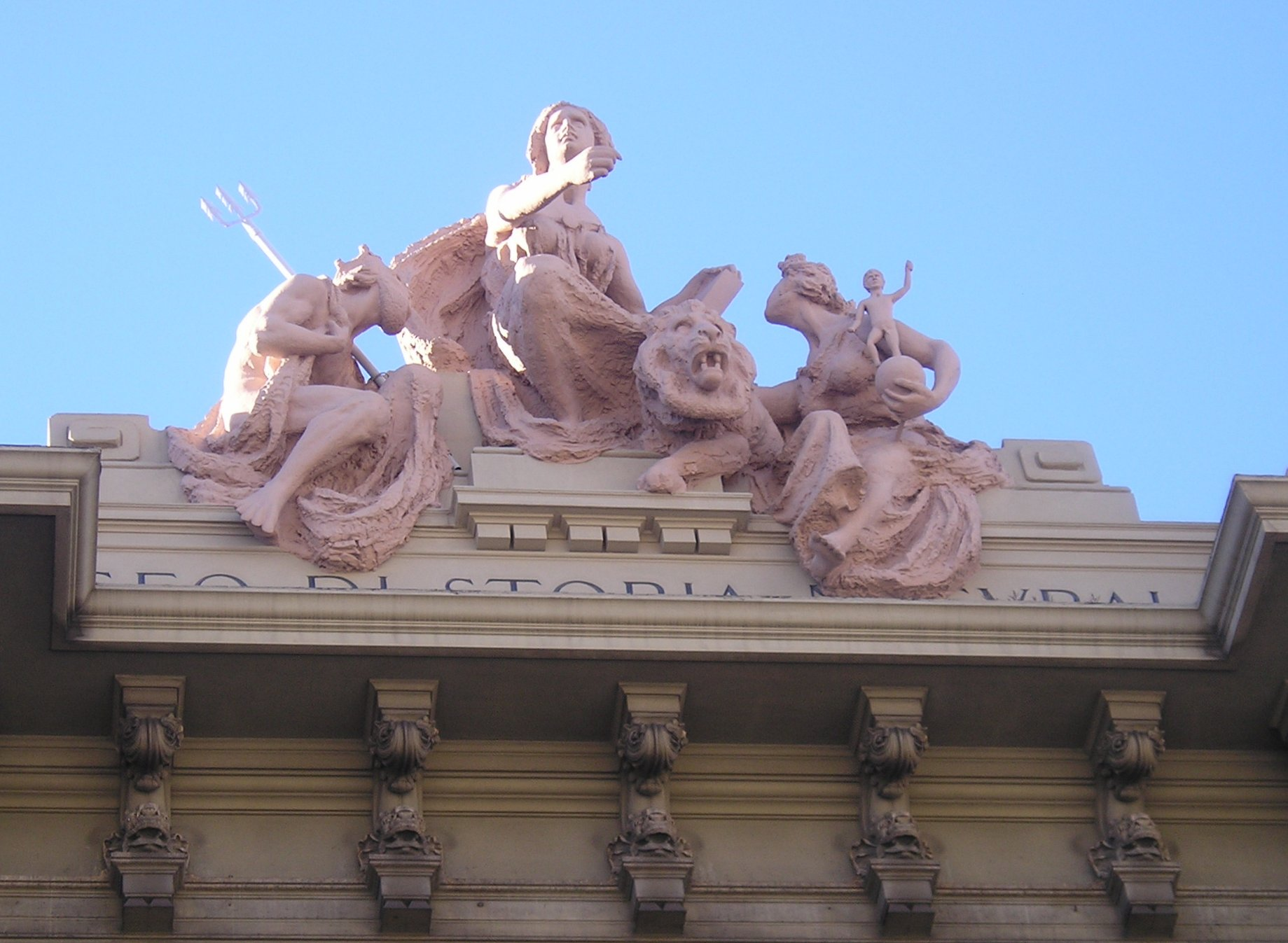 Detail of the "Museo civico di storia naturale" in Genoa, Italy